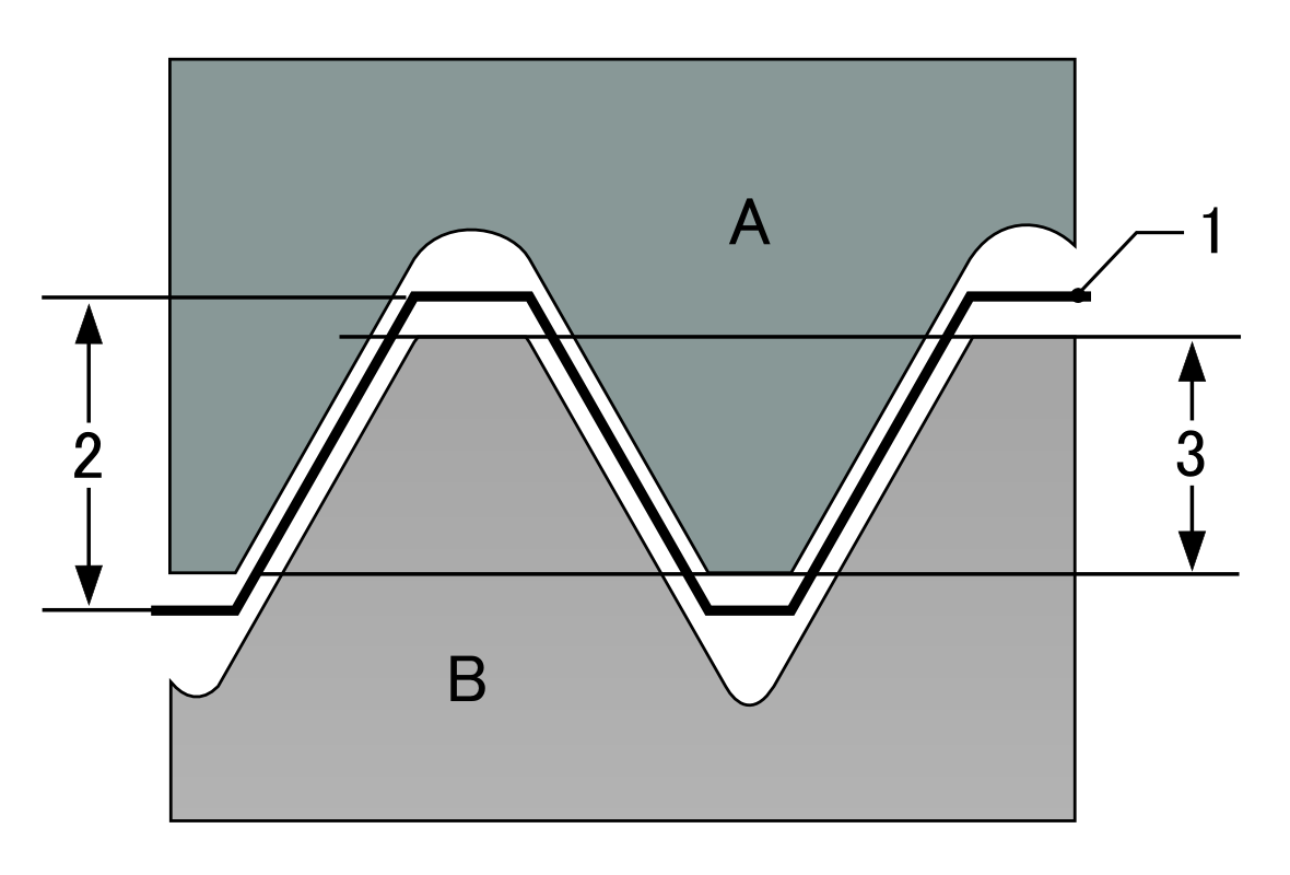 Screw (bolt) 06 N